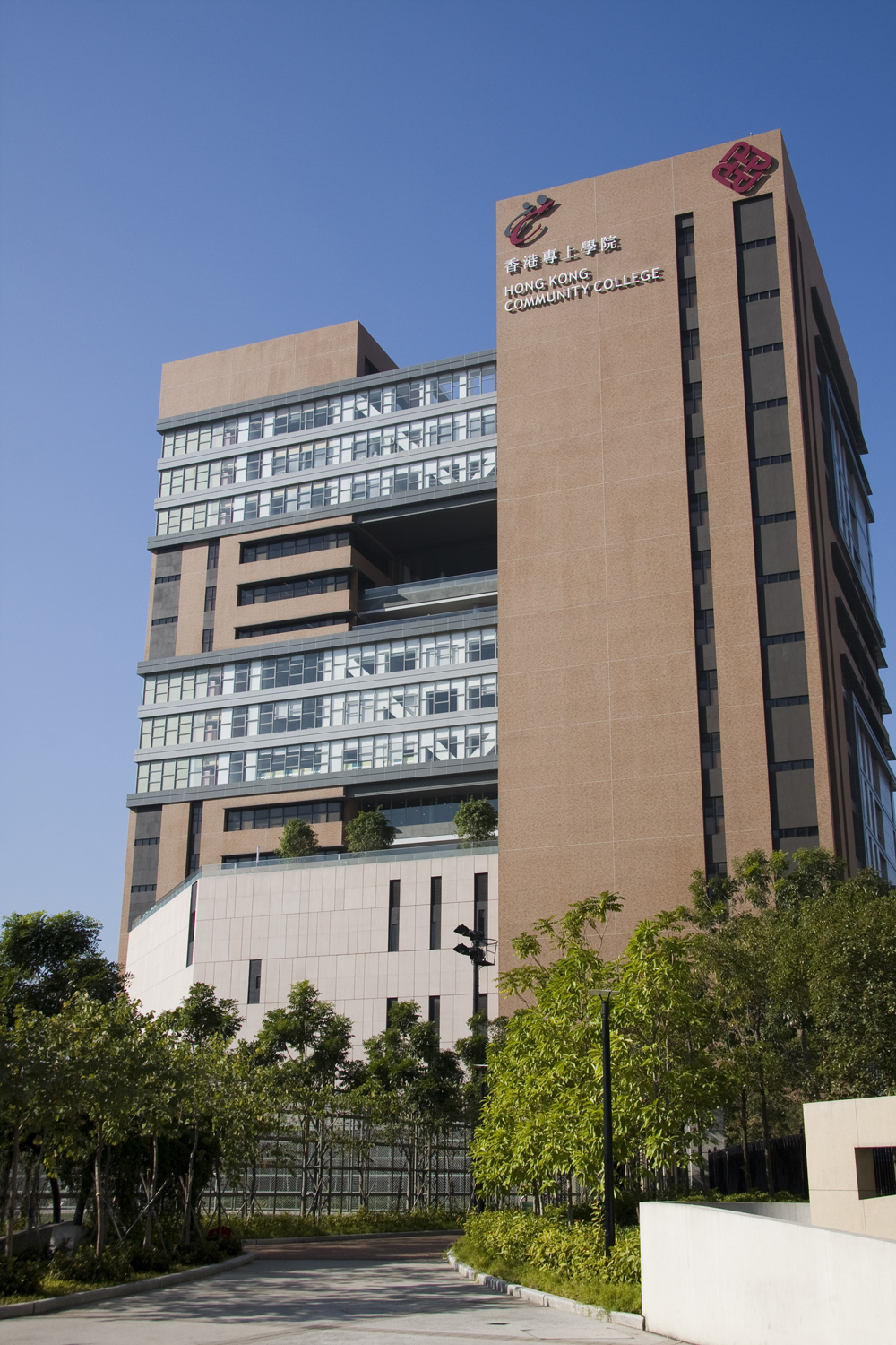 Hong Kong Community College (West Kowloon Campus) from Cherry Street Park